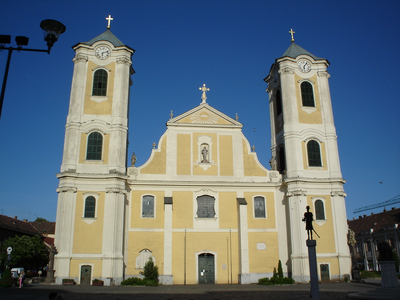 Szent Bertalán church in Gyöngyös, Hungary